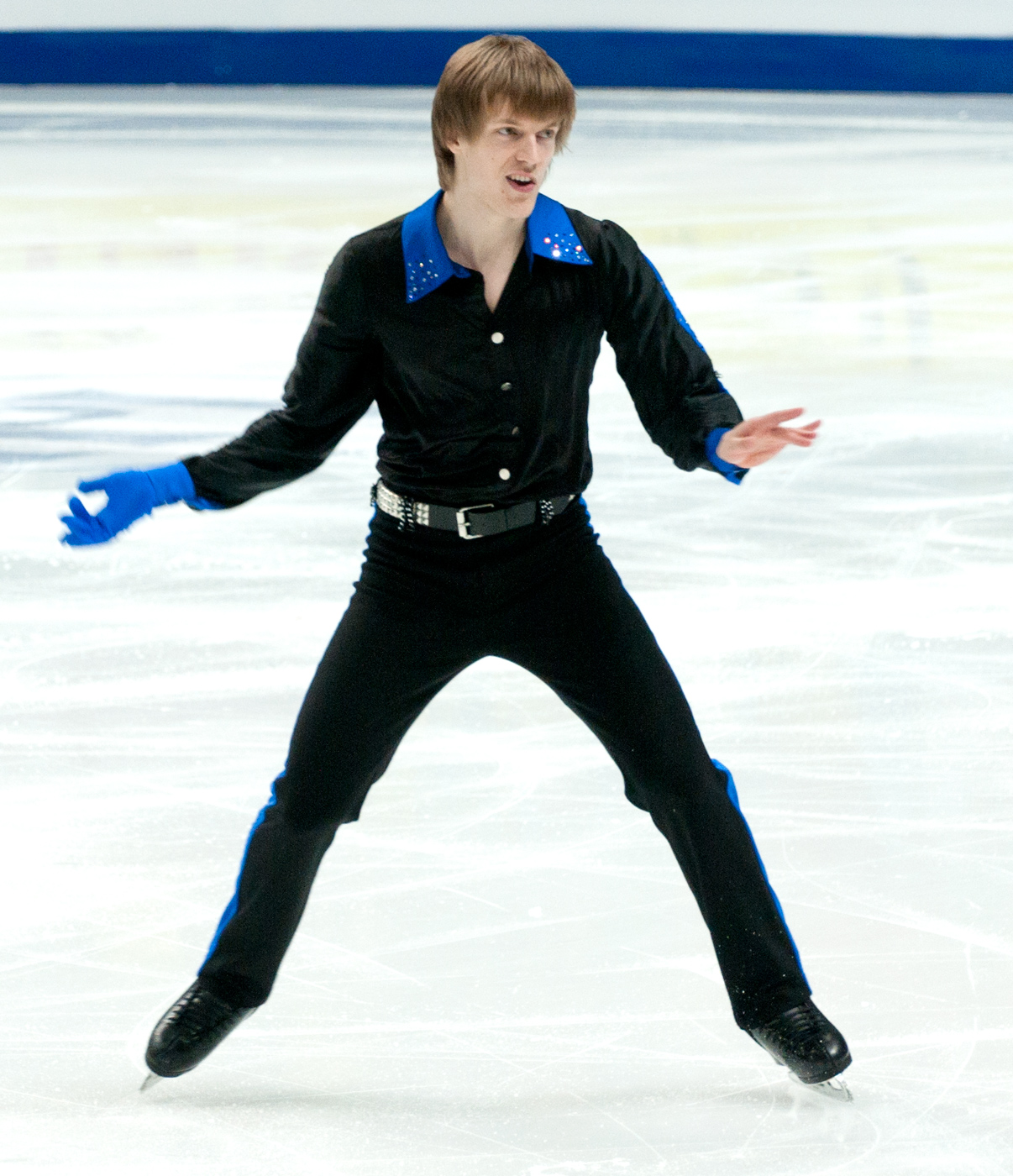 2011 World Figure Skating Championships, free skating.